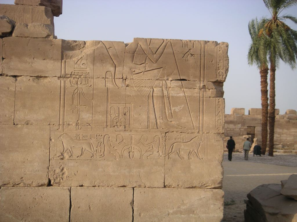 Sesostris I, Karnak relief. Union hieroglyph, showing Upper and Lower Egypt; Ka-raised arms hieroglyph, anthropomorphized with human arms.